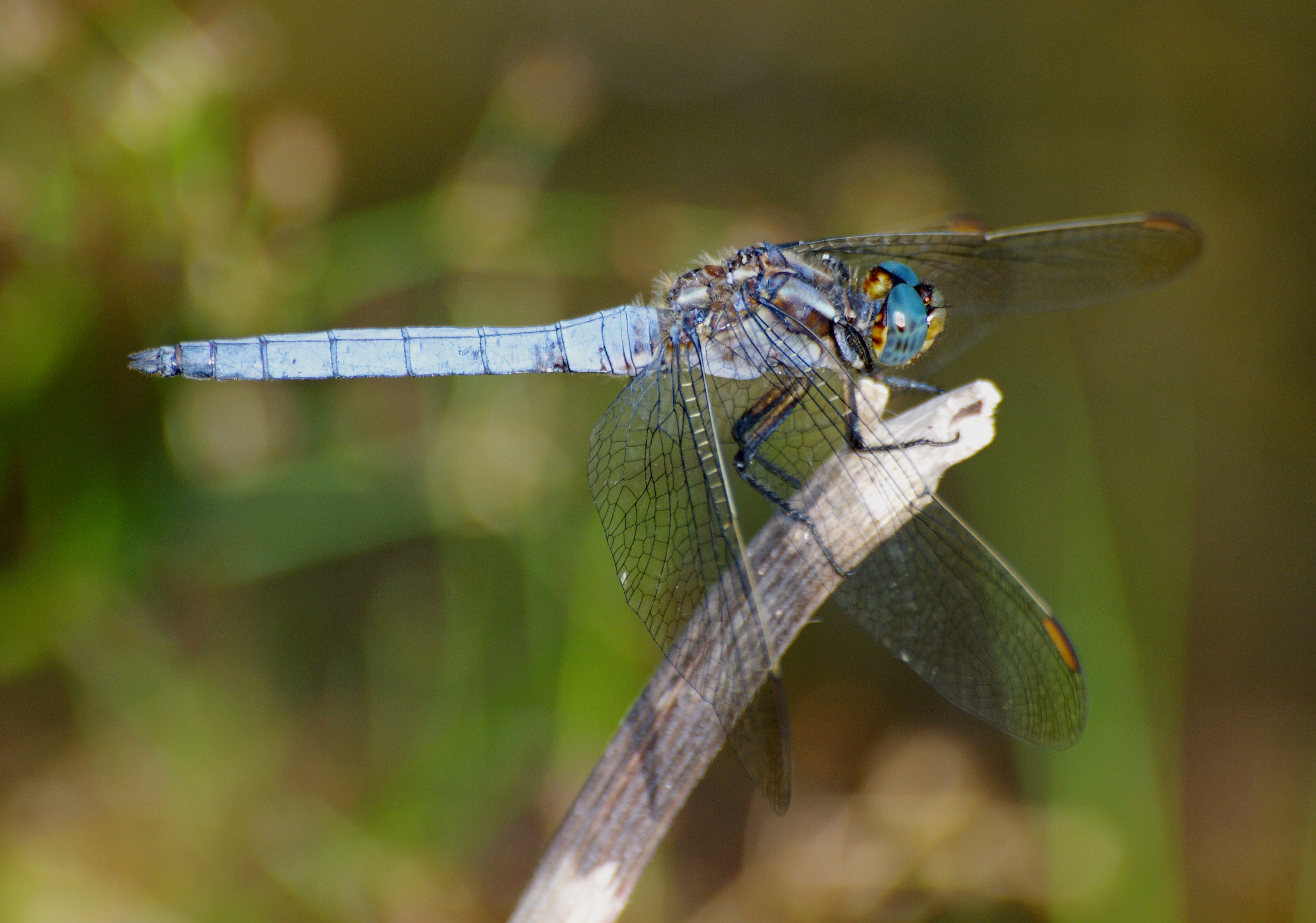 The dragonfly Keeled Skimmer, Orthetrum coerulescens, male specimen resting in an old gravel-pit.